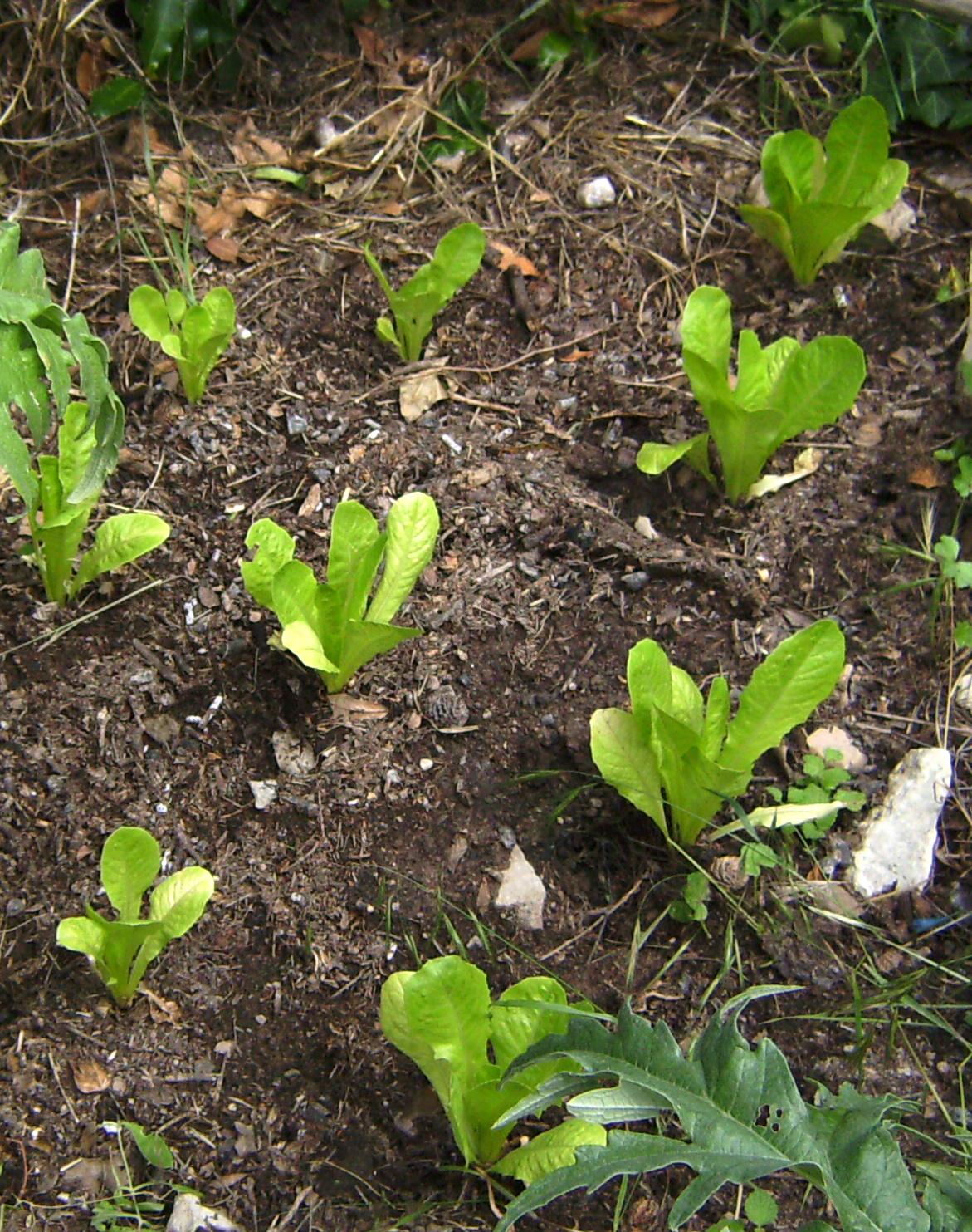 Lettuce, Lactuca sativa, young plants, var. romaine cultivated,Castelltallat, Catalonia